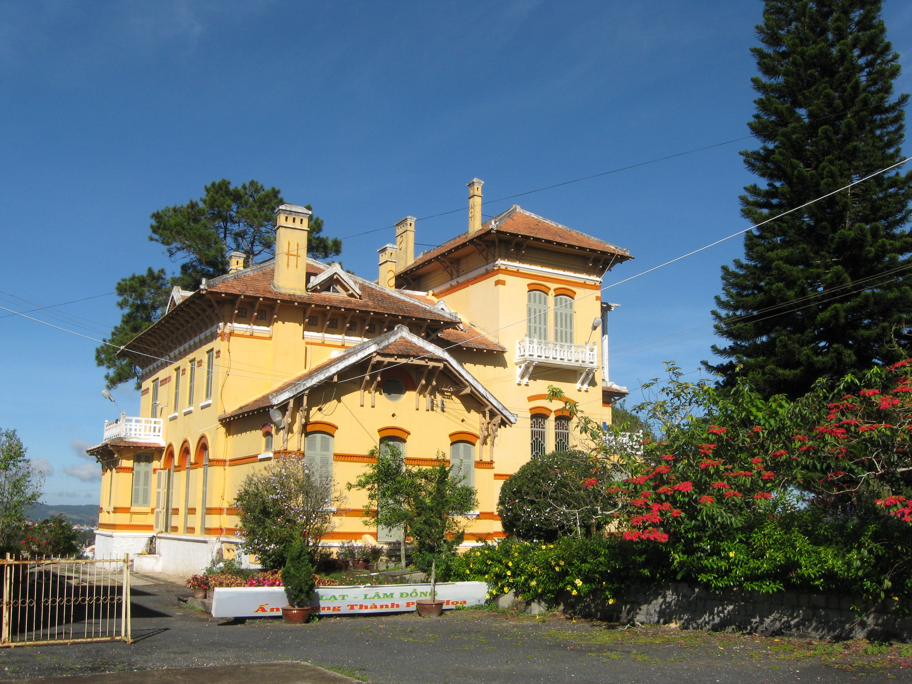 Lam Dong Museum